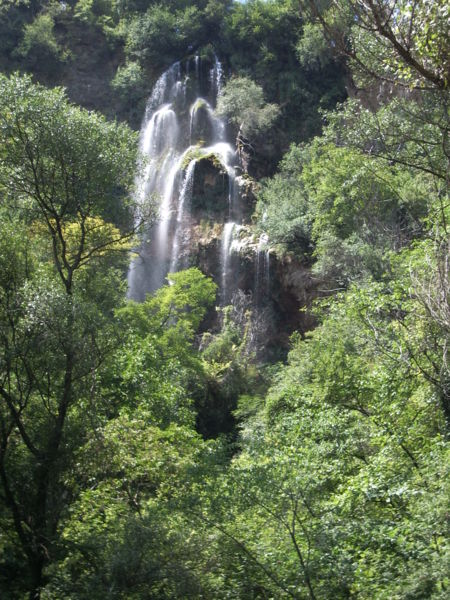 Polska Skakavitza waterfall (Polska Skakavitza village, Kyustendil Municipality